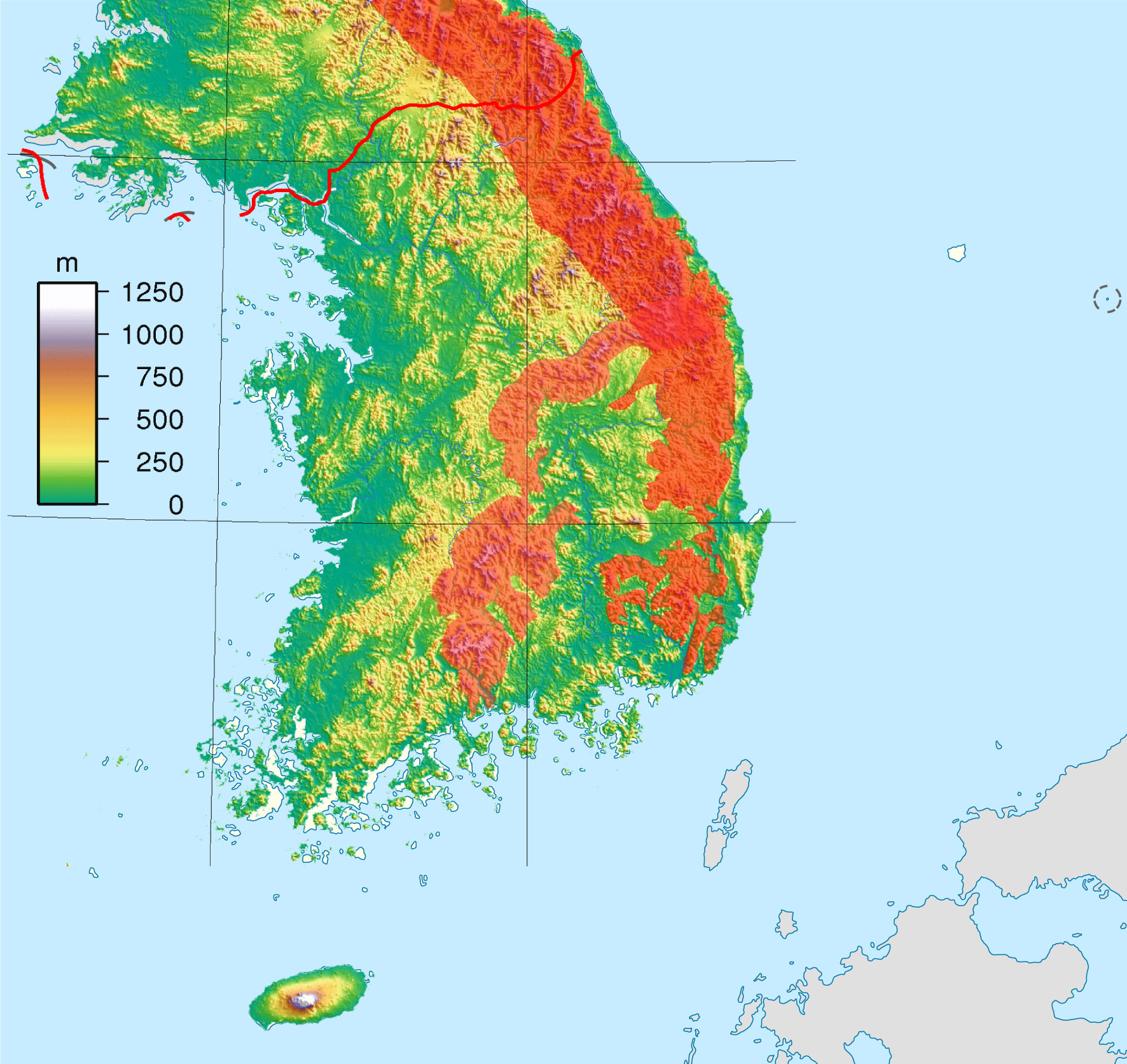 Topography map version designed to be used as an alternative map to South Korea location map.svg with the Taebaek and Sobaek Mountains regions marked in red